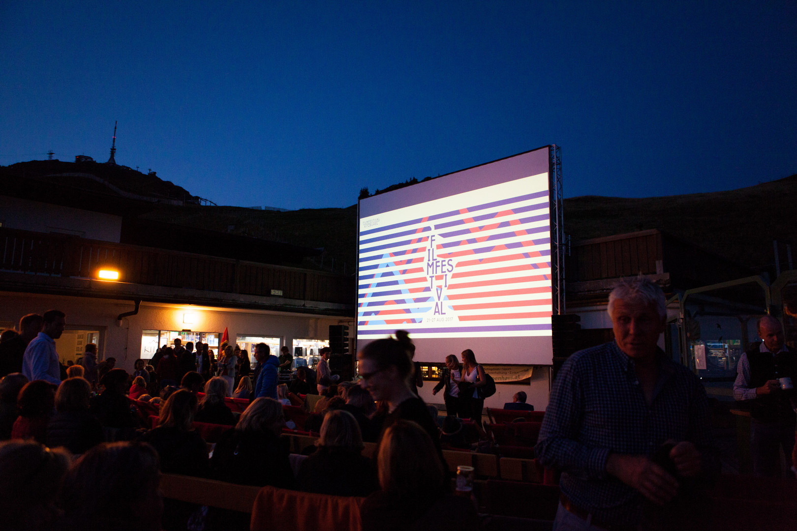 Premiere screening event on top of Kitzbueheler Horn during Film Festival Kitzbuehel